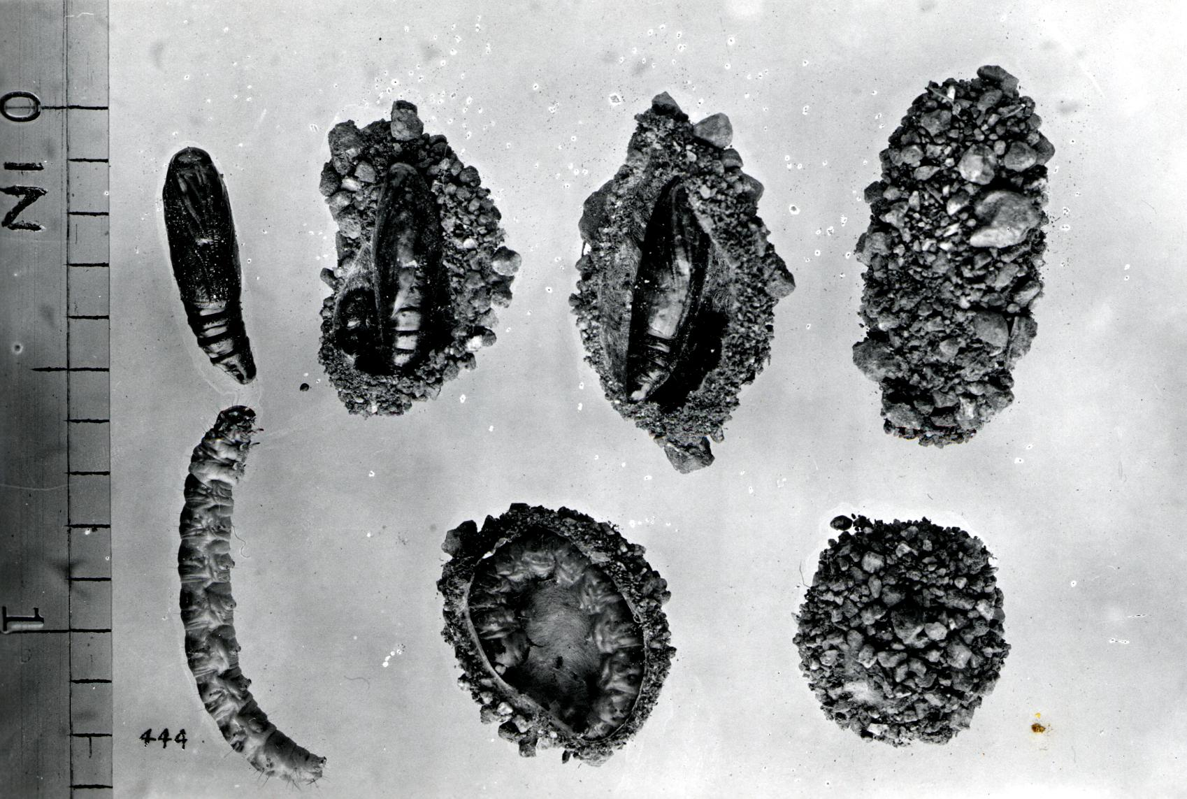 Dioryctria abietella. Larvae, cocoons, and pupae. Note: Taxonomy is from 1914 photo catalog documentation. In F.P. Keen's Cone and Seed Insects of Western Forest Trees (USDA Technical Bulletin 1169), this image is Figure 53 on page 149. The caption reads, "Larva, prepupal larva, pupae, and pebble-covered cocoons of Dioryctria abietella from Douglas-fir cones." Photo by: John E. Patterson Date: September 1914 Credit: USDA Forest Service, Pacific Northwest Region, State and Private Forestry, Forest Health Protection. Source: Bureau of Entomology Collection; La Grande, Oregon. Image: BUR-1961 To learn more about this photo collection see: Wickman, B.E., Torgersen, T.R. and Furniss, M.M. 2002. Photographic images and history of forest insect investigations on the Pacific Slope, 1903-1953. Part 2. Oregon and Washington. American Entomologist, 48(3), p. 178-185. For additional historical forest entomology photos, stories, and resources see the Western Forest Insect Work Conference site: Image provided by USDA Forest Service, Pacific Northwest Region, State and Private Forestry, Forest Health Protection: This image or file is a work of a United States Department of Agriculture employee, taken or made as part of that person's official duties. As a work of the U.S. federal government, the image is in the public domain.